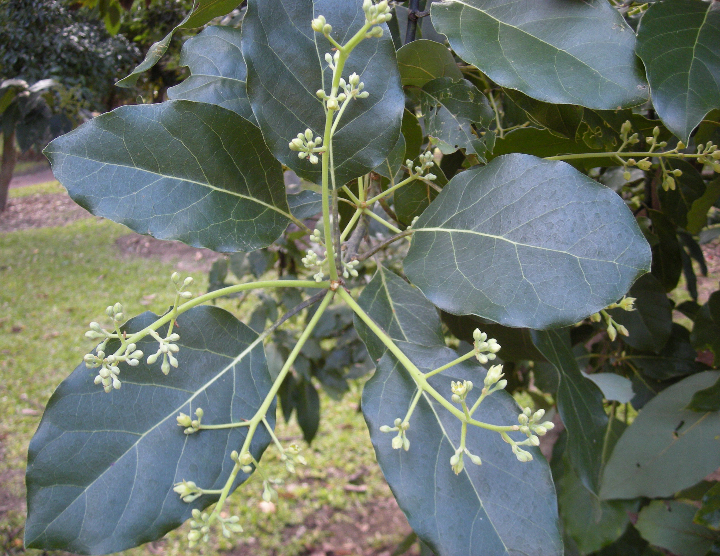 Persea americana (Avocado) flowers and foliage